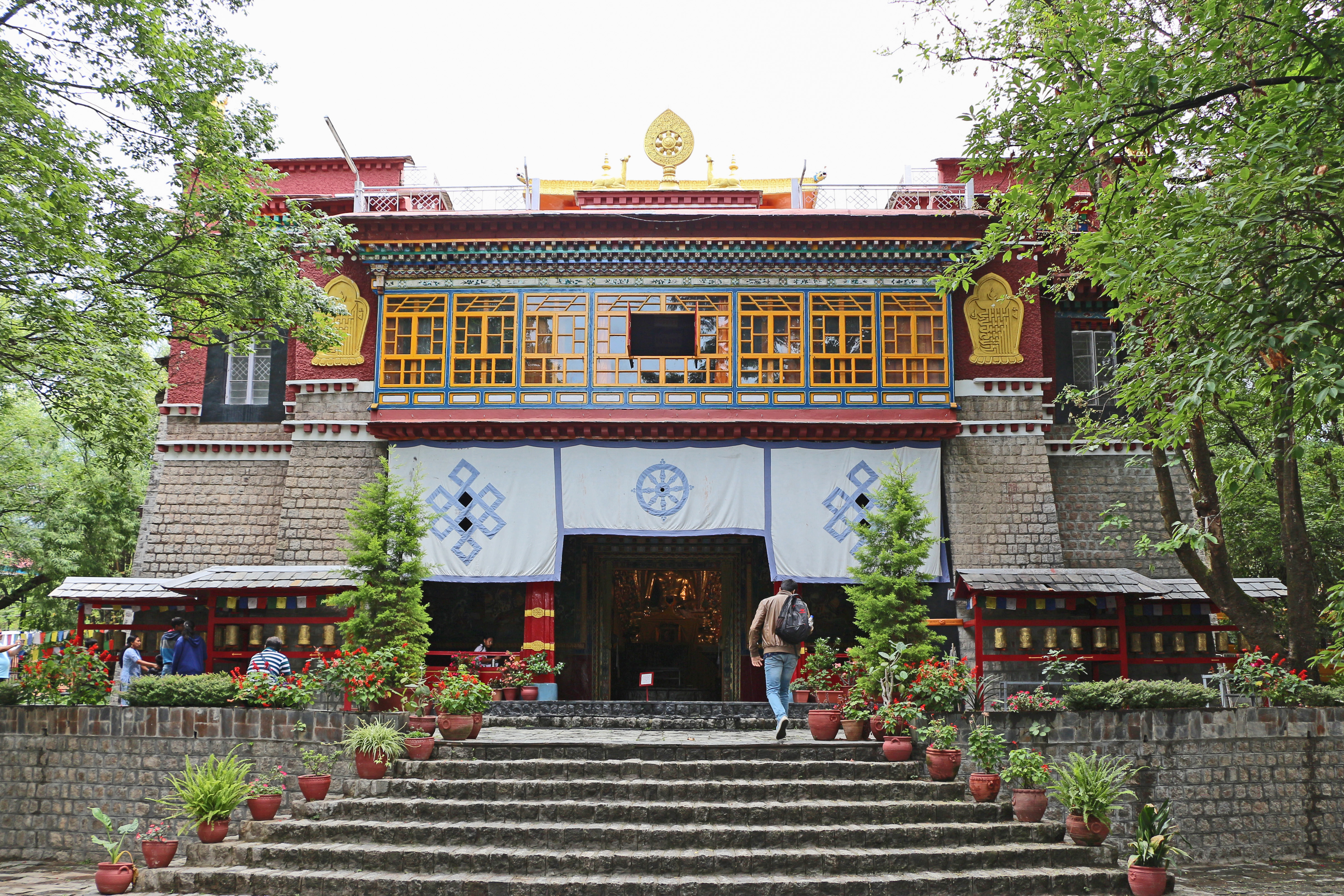 Deden Tsuglakhang, the Seat of Happiness Temple, in Norbulingka Institute, Dharamsala, India